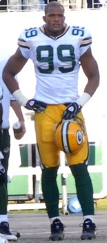 Green Bay Packers defensive end Jeremy Thompson on the sidelines during the November 2, 2008 game against the Tennessee Titans at LP Field.